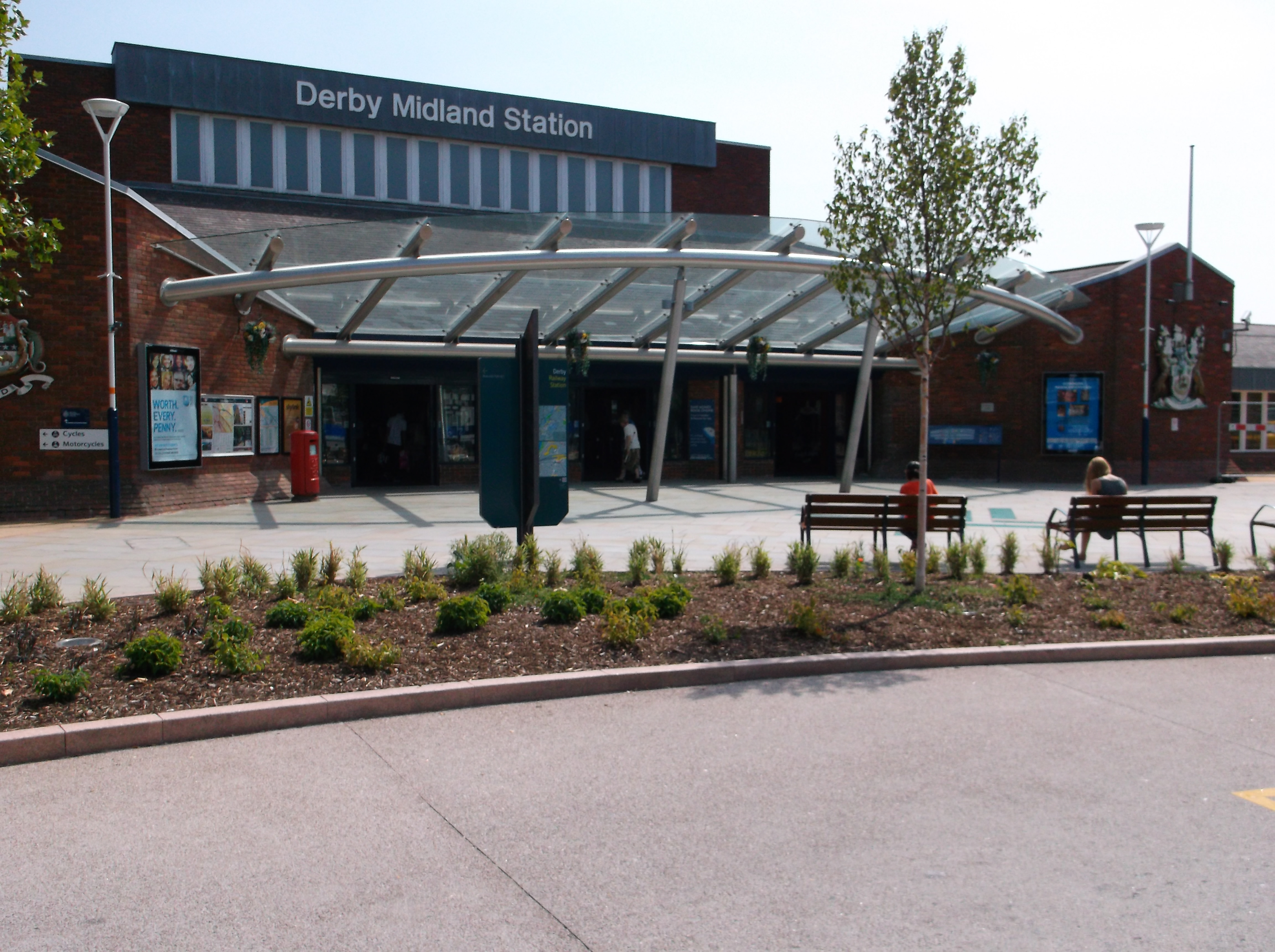 Refurbished entrance to Derby station